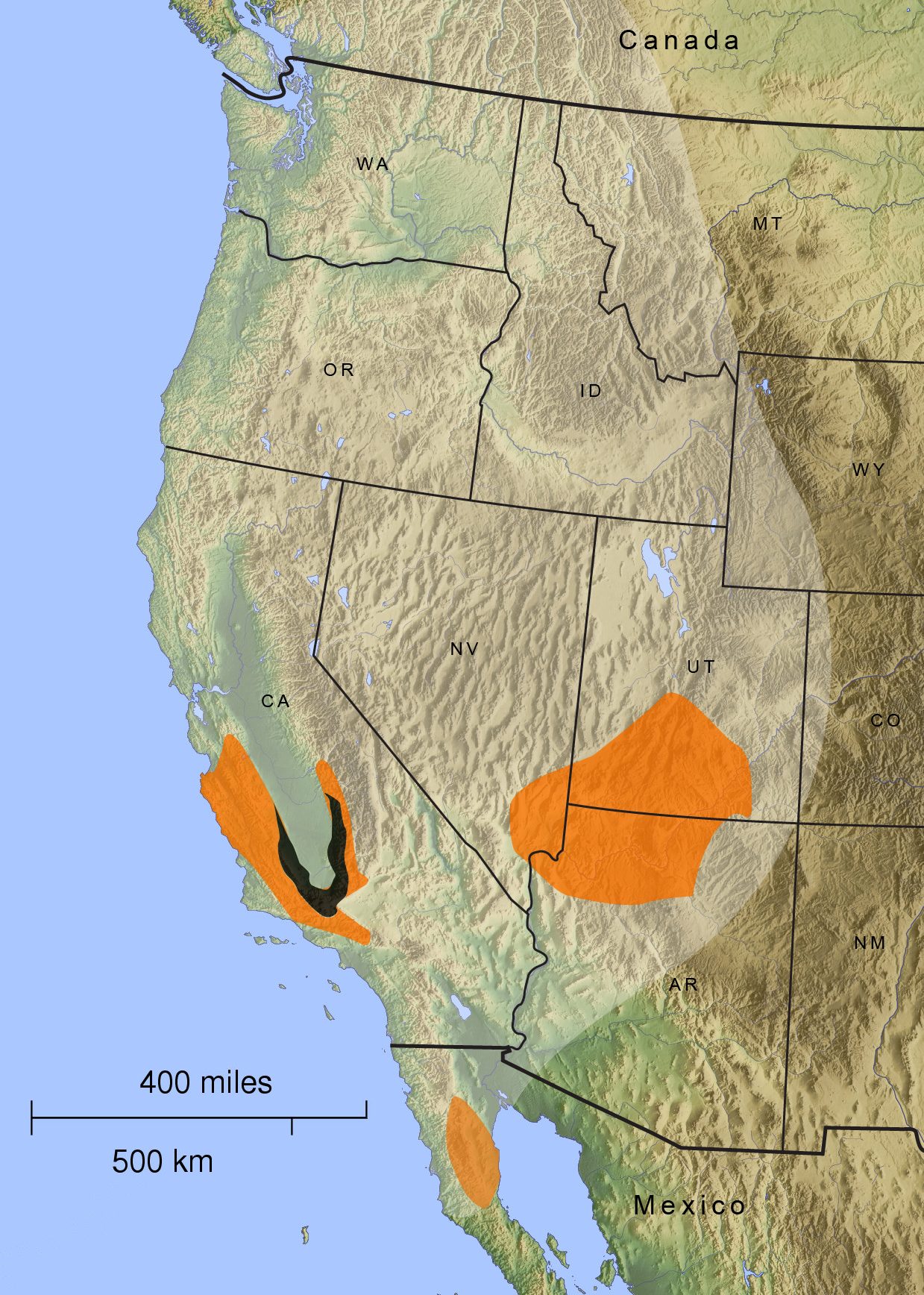 Historical and current ranges of the California Condor (Gymnogyps californianus). The white shaded area marks the range in the early 19th century (to the north not extending beyond the south of British Columbia; eastern range limit is rather optimistic). The black shaded area marks the range as it was around 1950. The orange shaded area marks the range as it was in 2012 after almost 20 years of ongoing re-introduction of the species into the wilderness.